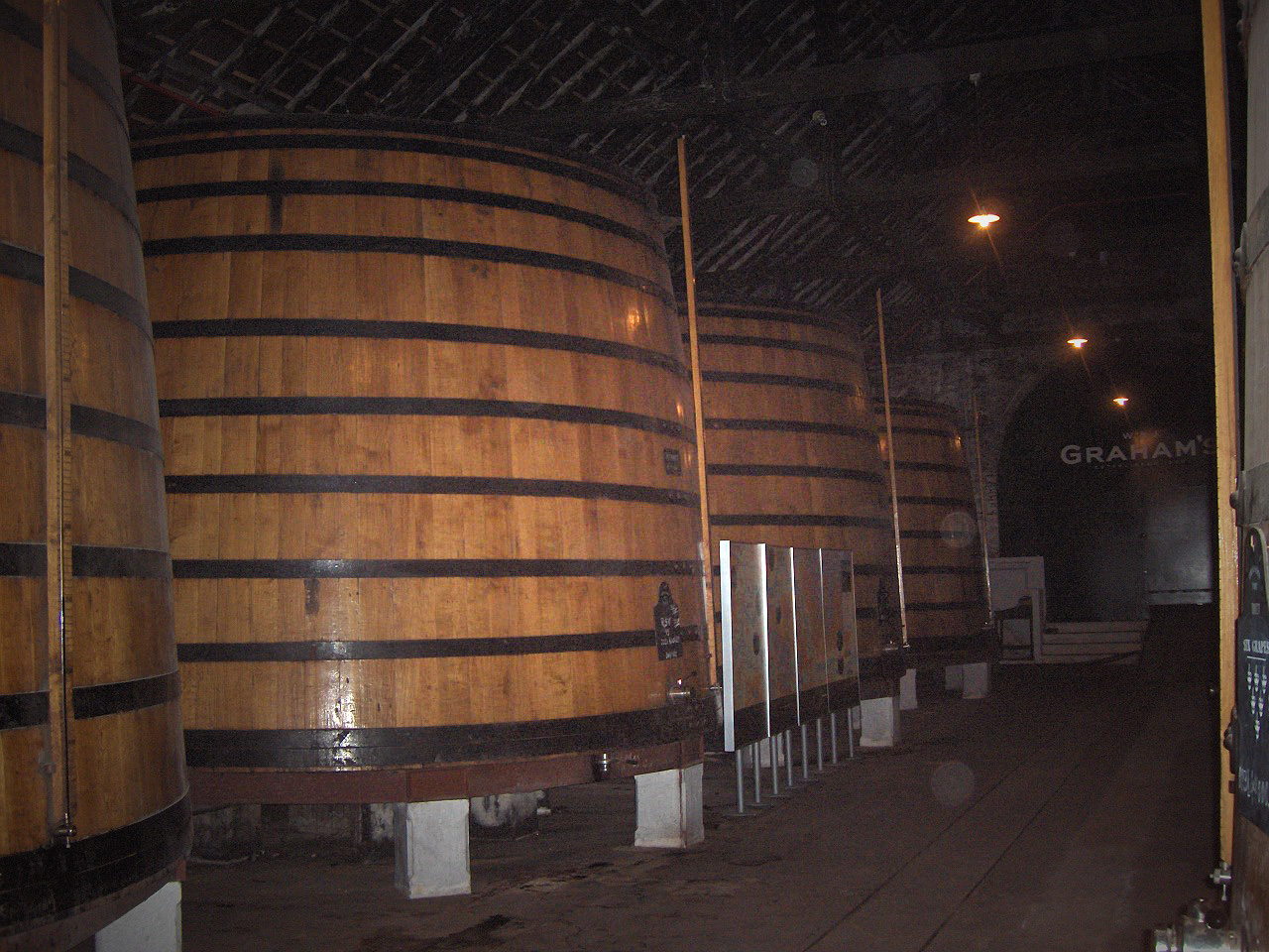 Large wooden tanks (up to 1,000 hl) of port wine in the cave of the producer; Porto, Portugal